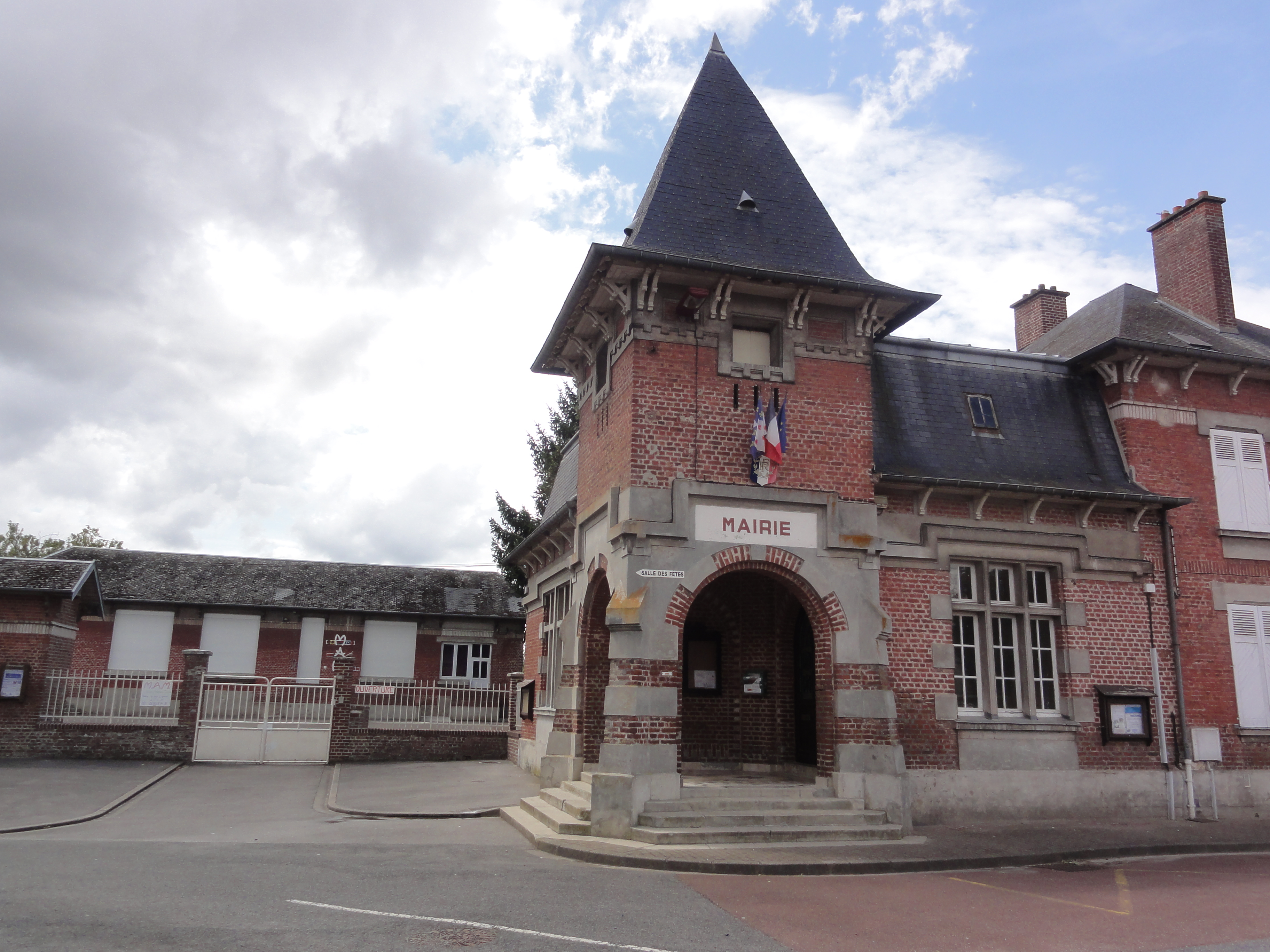 Tugny-et-Pont (Aisne) mairie et salle des fêtes